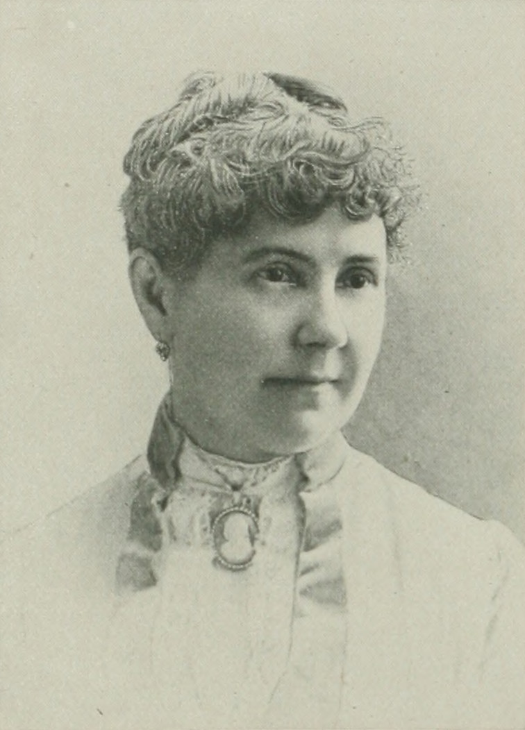 Page:A woman of the century.djvu/